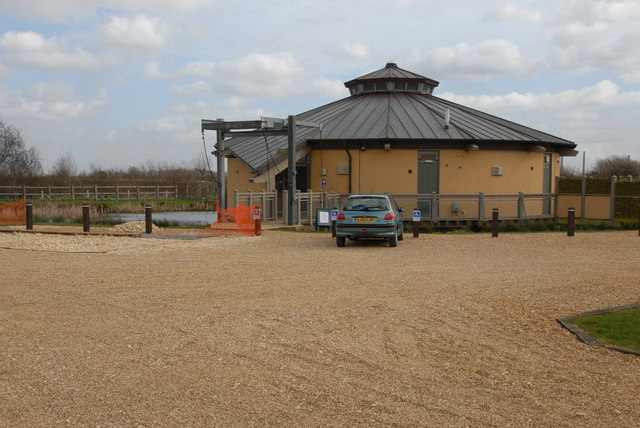 Flag Fen, Peterborough. A bronze age site just east of Fengate, Peterborough. The picture shows the Heritage Centre. See link